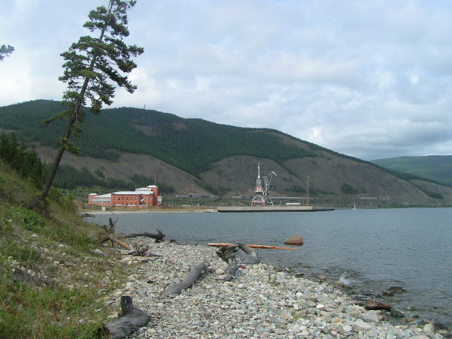 Harbour of Severobaykalsk, Buryatia, Russia